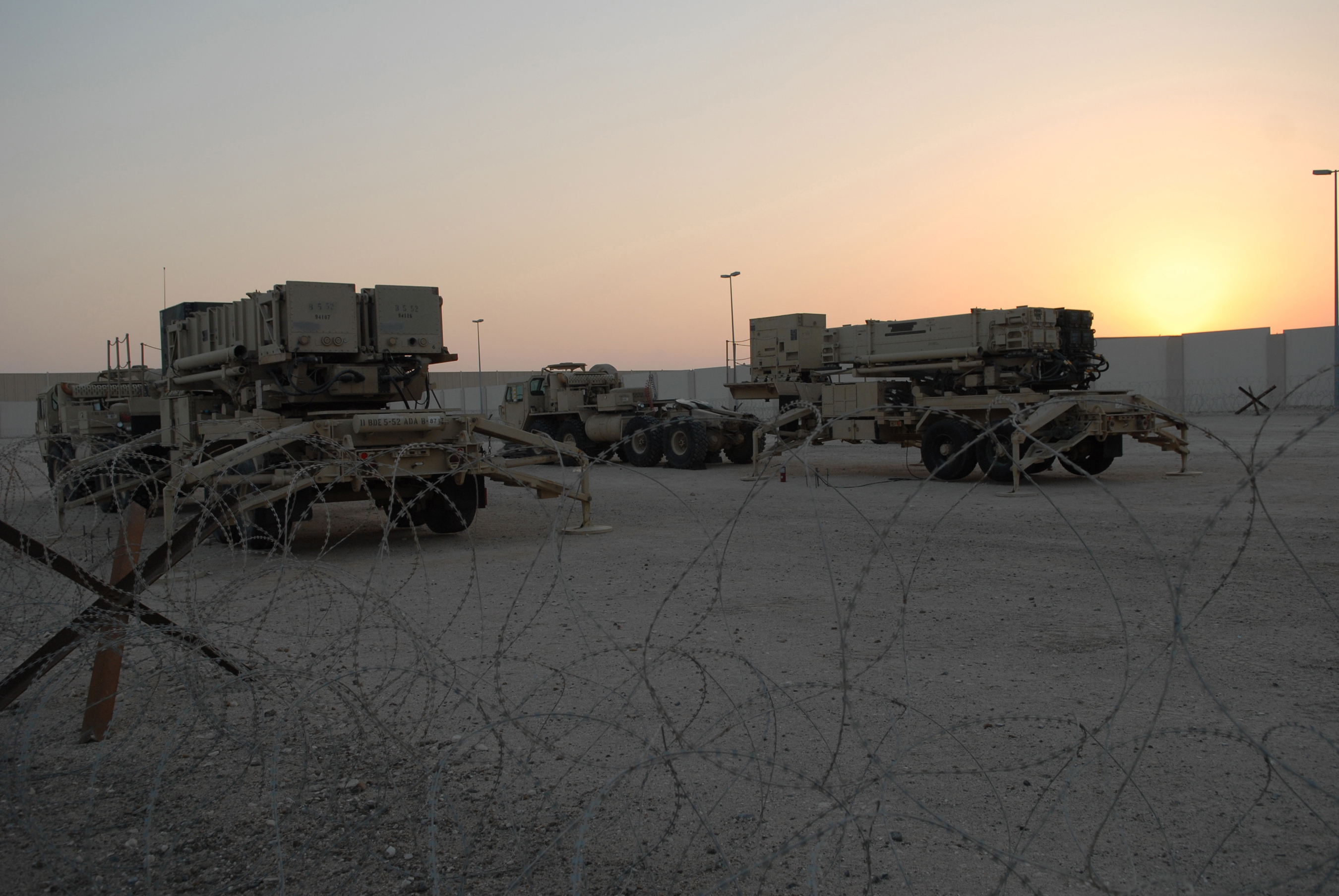 Two Patriot PAC 3 launchers stand ready for their new mission Jan. 2 at an air base in Southwest Asia. More than a dozen Soldiers deployed to the Air Force base to prepare the Patriot equipment before the arrival of the main body from 5-52 Air Defense Artillery Battalion from Fort Bliss, Texas. (U.S. Air Force photo/Tech. Sgt. Denise Johnson)